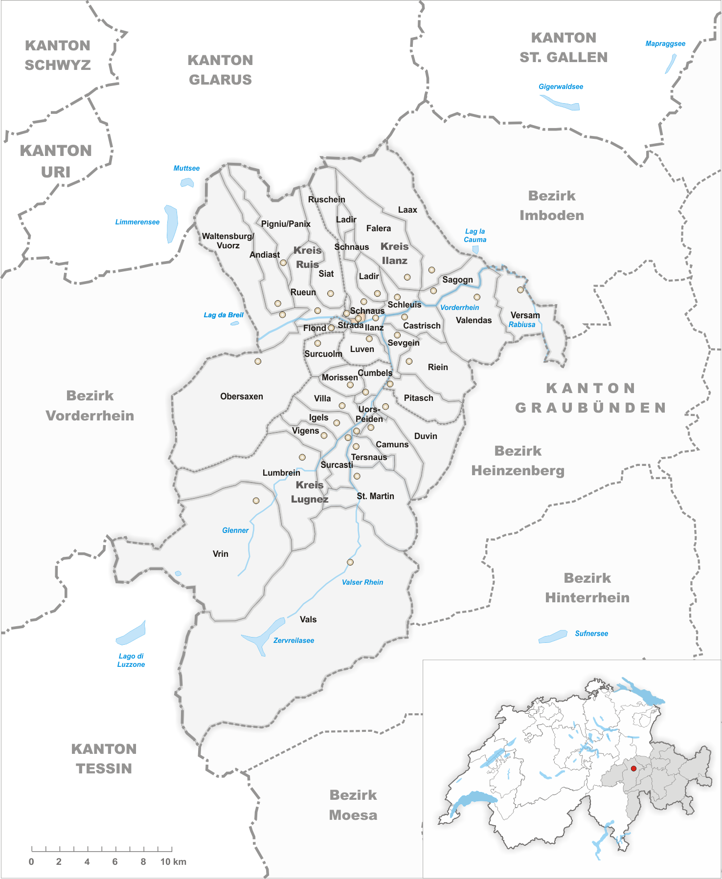 Municipality Strada Artist: Tschubby